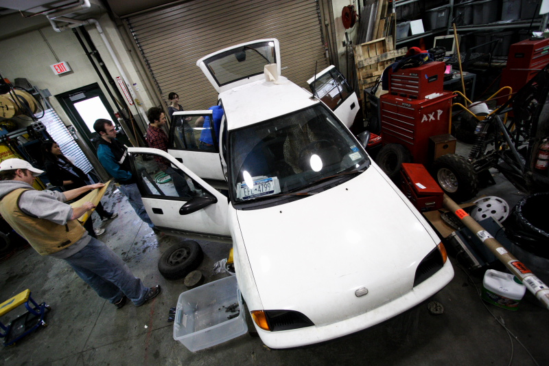 The Cornell AXP Team's Test Bed - A 1991 Geo Metro